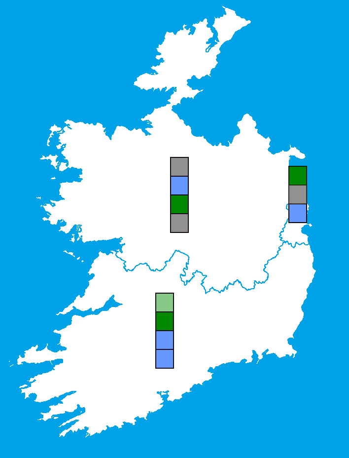 For Irish Euros 2014 article.